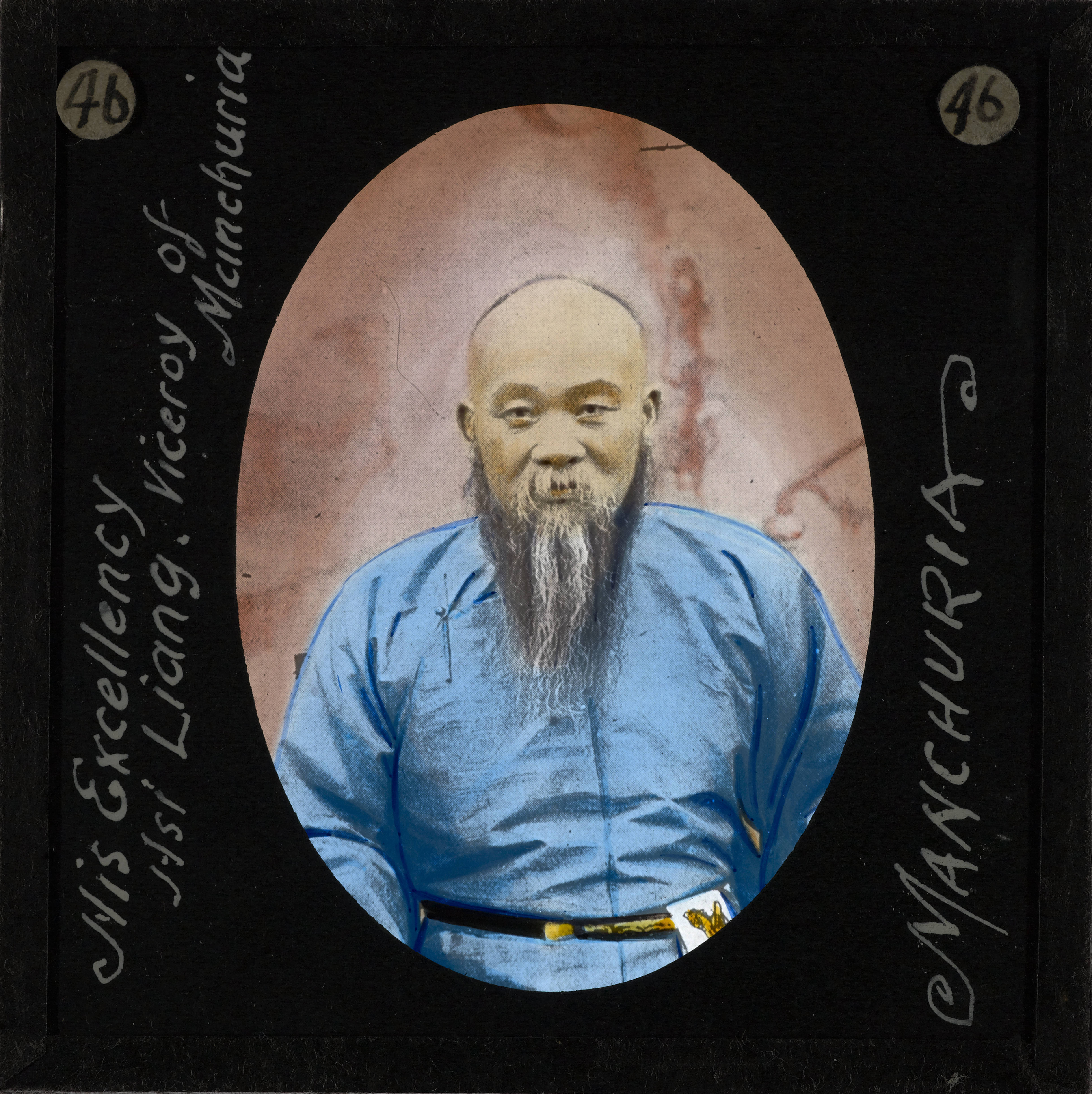 His Excellency Hsi Liang, Viceroy of Manchuria, Manchuria, 1882-ca. 1936 Portrait photograph of His Excellency Hsi Liang, Viceroy of Manchuria.; This belongs to a series of Church of Scotland Foreign Missions Committee lantern slides relating to the Scottish missionary Dugald Christie. Dugald Christie was born in Glencoe in Scotland and studied medicine under the auspices of the Edinburgh Medical Missionary Society. In 1882, along with his first wife, Elizabeth, he went to Manchuria to work as a medical missionary of the United Presbyterian Church of Scotland. He worked initially in Newchang and later moved to the capital of Mukden where he opened Manchuriaas first hospital in 1884. In 1912 he established Mukden Medical College. Dugald Christie retired in 1923 and died in Edinburgh in 1936. Photographer: Unknown Filename: imp-cswc-GB-237-CSWC47-LS8-046.tif Coverage date: 1882/1936 Part of collection: International Mission Photography Archive, ca.1860-ca.1960 Geographic subject (region): Manchuria Type: images Part of subcollection: Photographs from the Centre for the Study of World Christianity, University of Edinburgh, U.K., ca.1900-ca.1940s Repository name: Centre for the Study of World Christianity Archival file: impaunpub_Volume7/1708.url Repository address: The University of Edinburgh School of Divinity, New College, Mound Place, Edinburgh EH1 2LX, United Kingdom Geographic subject (country): China Format (aacr2): 1 lantern slide : 8 x 8 cm. Geographic subject (continent): Asia Rights: Contact the repository for details. Part of series: Dugald Christie LS8 Repository Subject (lcsh Keyword): Heads of state Date created: before 1882/1936 Publisher (of the digital version): University of Southern California. Libraries Subject (aat genre): portraits Format (aat): lantern slides Legacy record ID: impa-m69161 Access conditions: File: GB 237 CSWC47/LS8/46